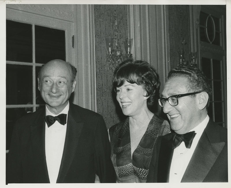 Photographer: unknown Date: 1977 Medium: Black and white photograph Repository: American Jewish Historical Society Parent Collection: American Jewish Congress Collection (I-77) Location: Original photograph found in Box 758, Folder 28 of the American Jewish Congress Collection (I-77). Call Number: aa-i77-b758-f28-006 Persistent URL: Rights Information: No known copyright restrictions; may be subject to third party rights. For more copyright information, click here. See more information about this image and others at CJH Digital Collections. To inquire about rights and permissions, or if you have a question regarding the collection to which the image belongs, please contact the Reference Department of the American Jewish Historical Society by email. Digital images created by the Gruss Lipper Digital Laboratory at the Center for Jewish History.